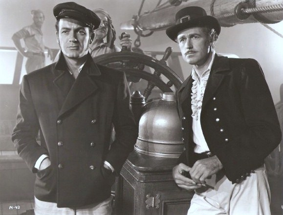 Mark Stevens (left) and Patric Knowles (right) in the Edward Dmytryk's movie Mutiny (1952)